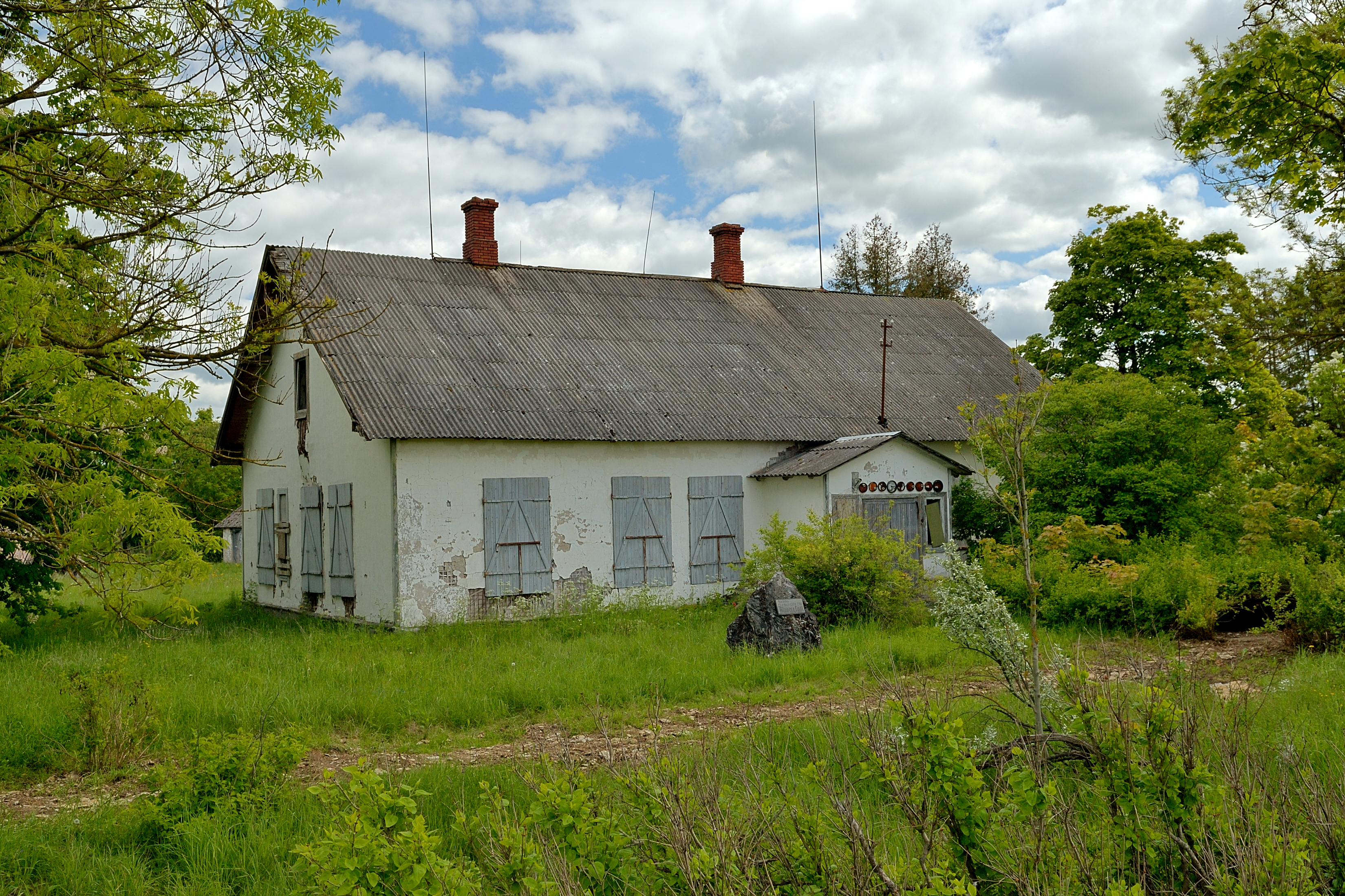 Aluvere village school building